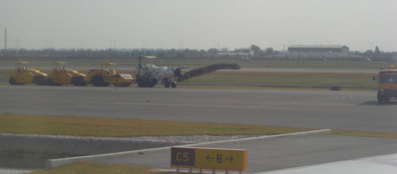 Reconstruction of runways at Suvarnabhumi International Airport near Bangkok, Thailand.